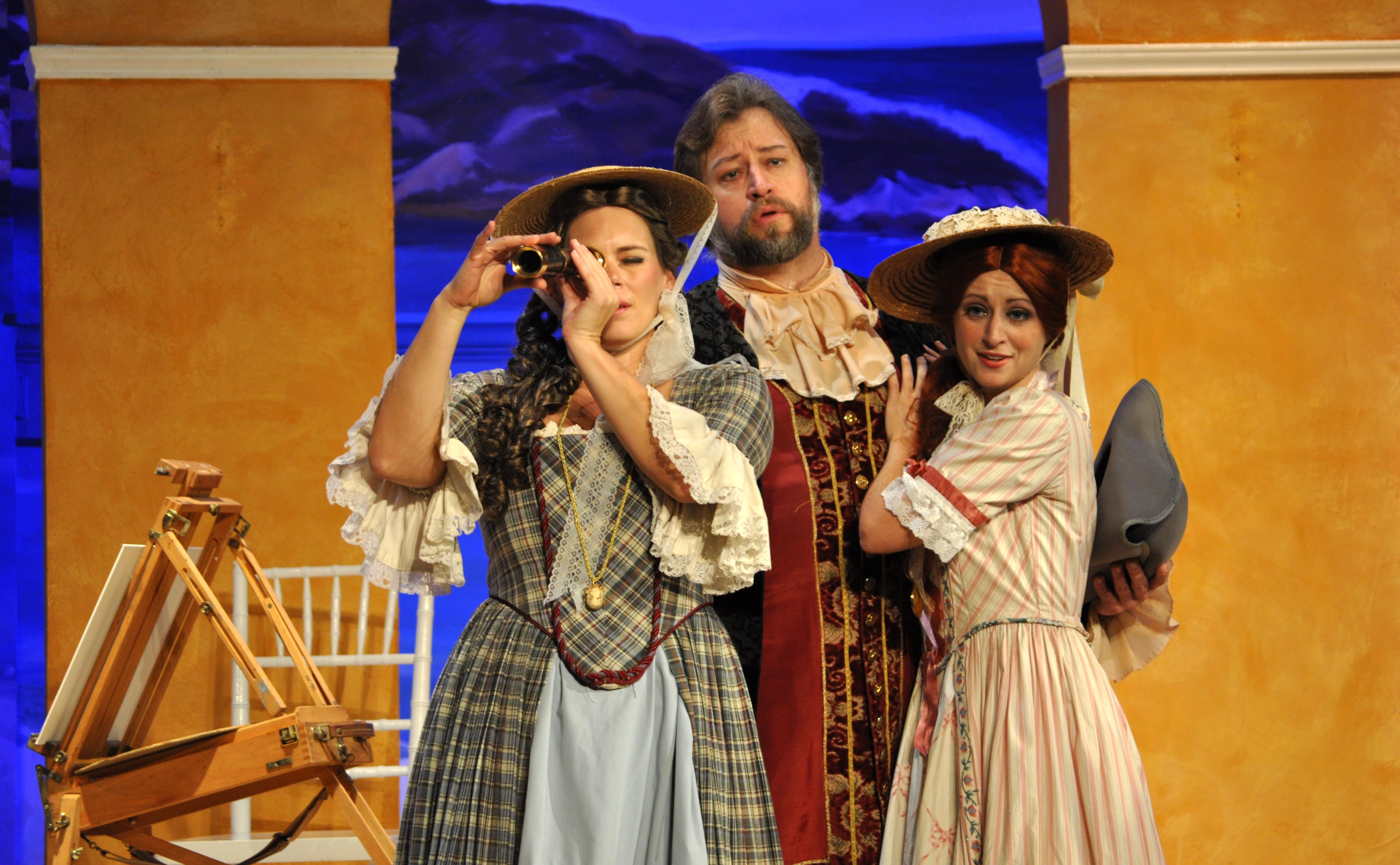 Opera in the Heights